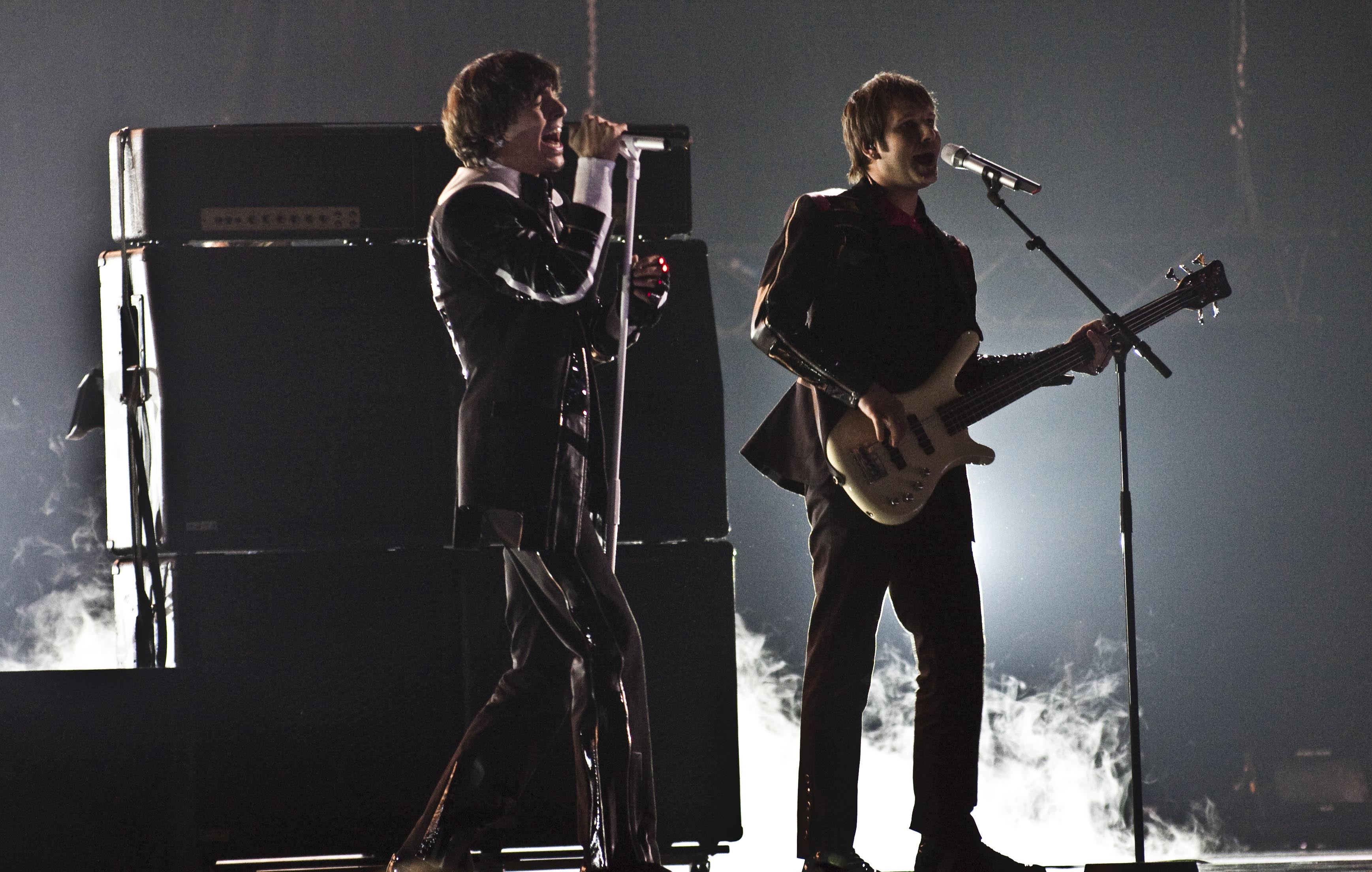 Turkish representative maNga performing its song "We Could be the Same"(according to a message I received from them, it is allowed to use pictures under cc-by-sa-2.0 and this one ls licensed under that license)